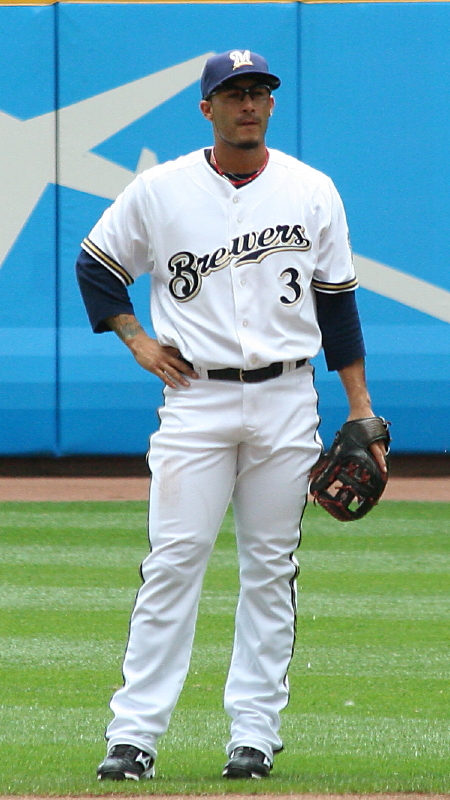 Felipe López stands in the infield before a game at Miller Park.